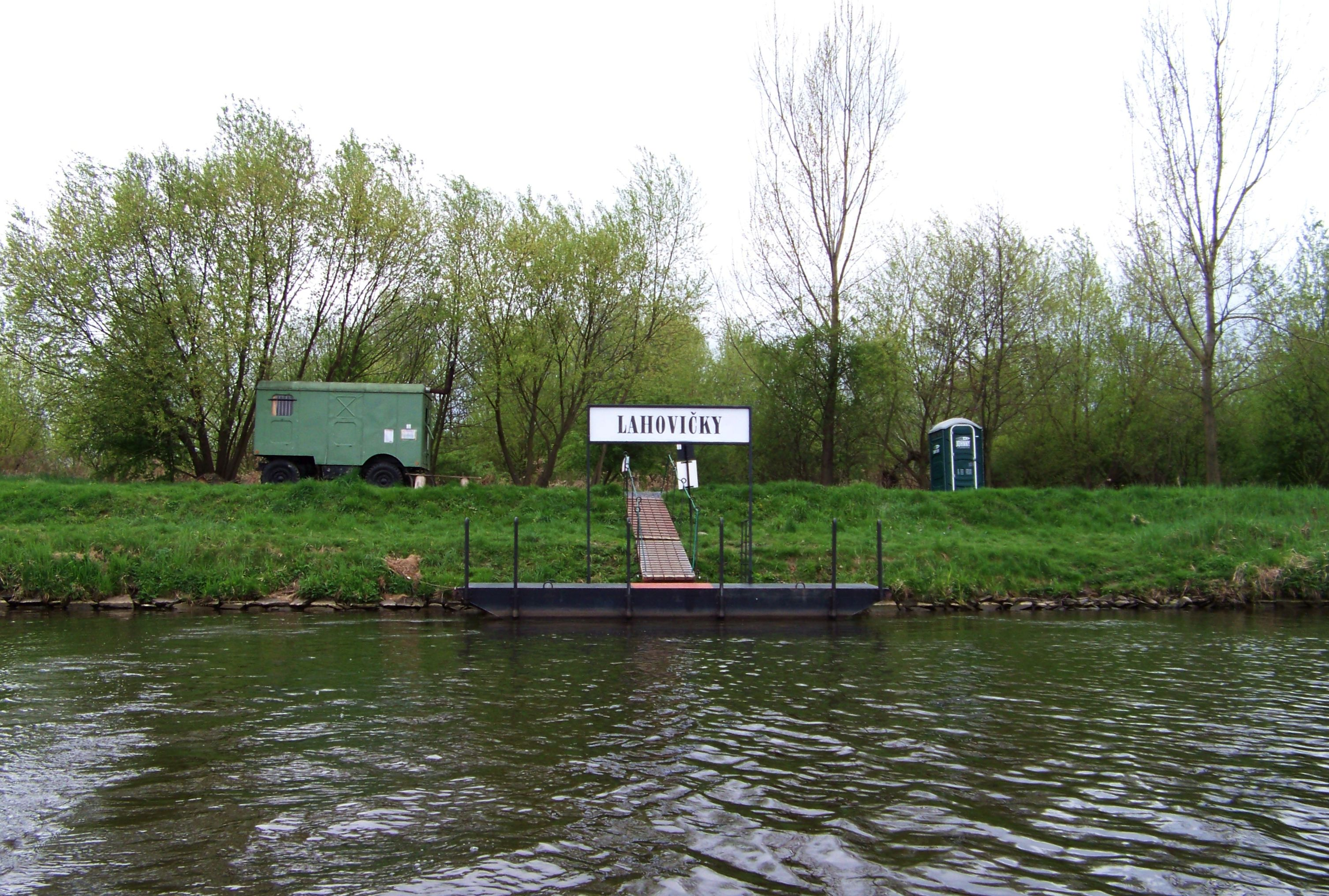 Prague-Lahovice-Lahovičky, Czech Republic. The Vltava river, P6 Ferry to Modřany. A trailer and a toilet for the ferryman.